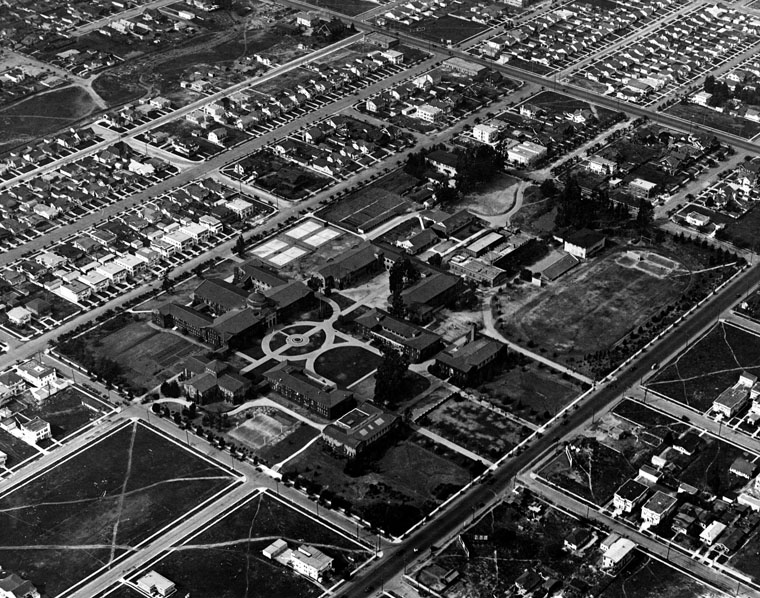 Aerial view of the old Vermont Avenue campus of the University of California, Los Angeles, which later became Los Angeles City College. Vermont Avenue runs from the bottom of the photo to the right. Built in 1914, it was designed by Allison and Allison, architects.